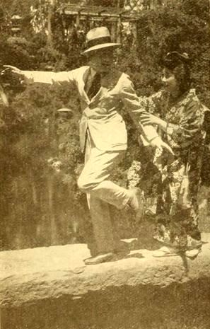 Still from the American film Bonds of Honor (1919) with Sessue Hayakawa and Tsuru Aoki, on page 326 of the january 18, 1919 Moving Picture World.